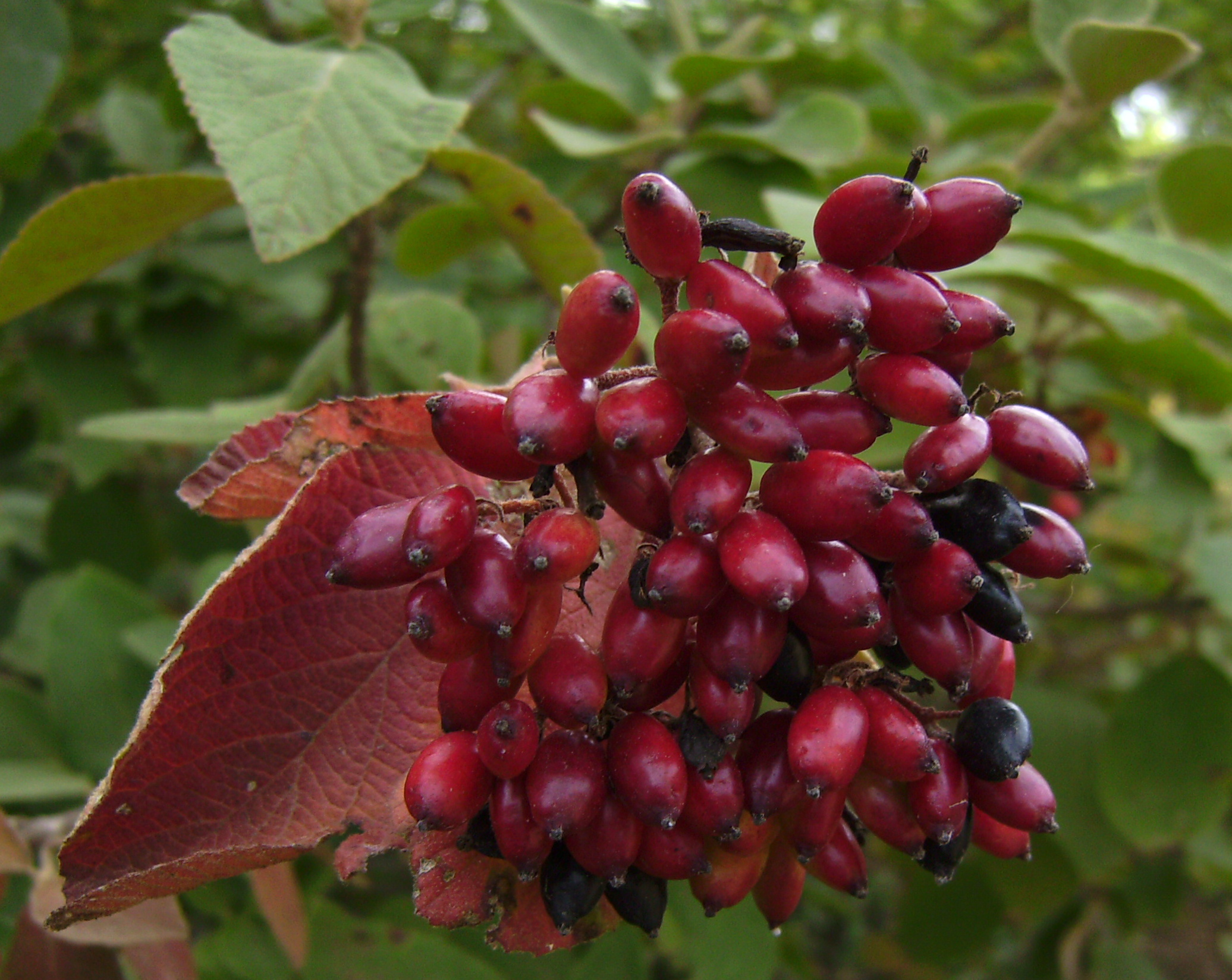 Viburnum lantana unriped fruits, Castelltallat, Catalonia